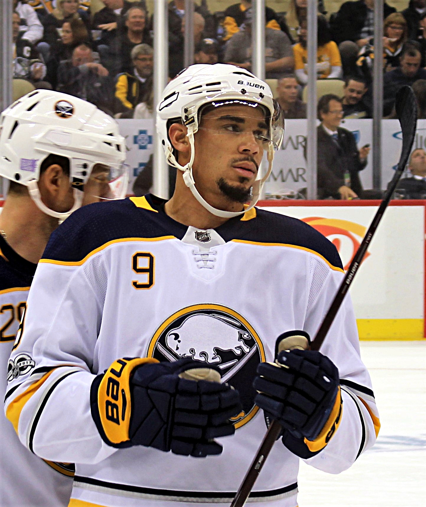 Buffalo Sabres forward Evander Kane during a game against the Pittsburgh Penguins, November 14, 2017, at PPG Paints Arena in Pittsburgh, PA.